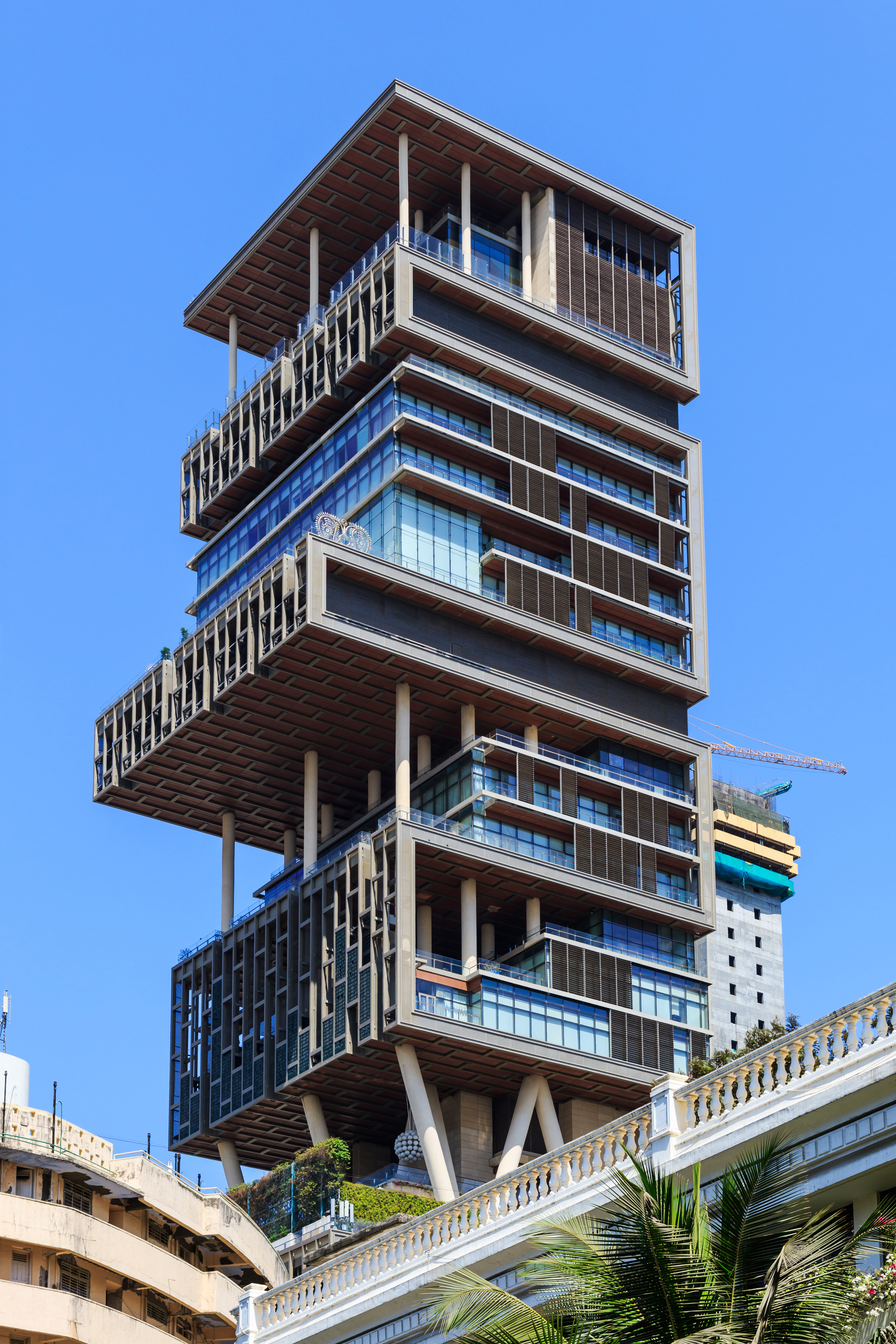 Antilia Tower in Mumbai, India